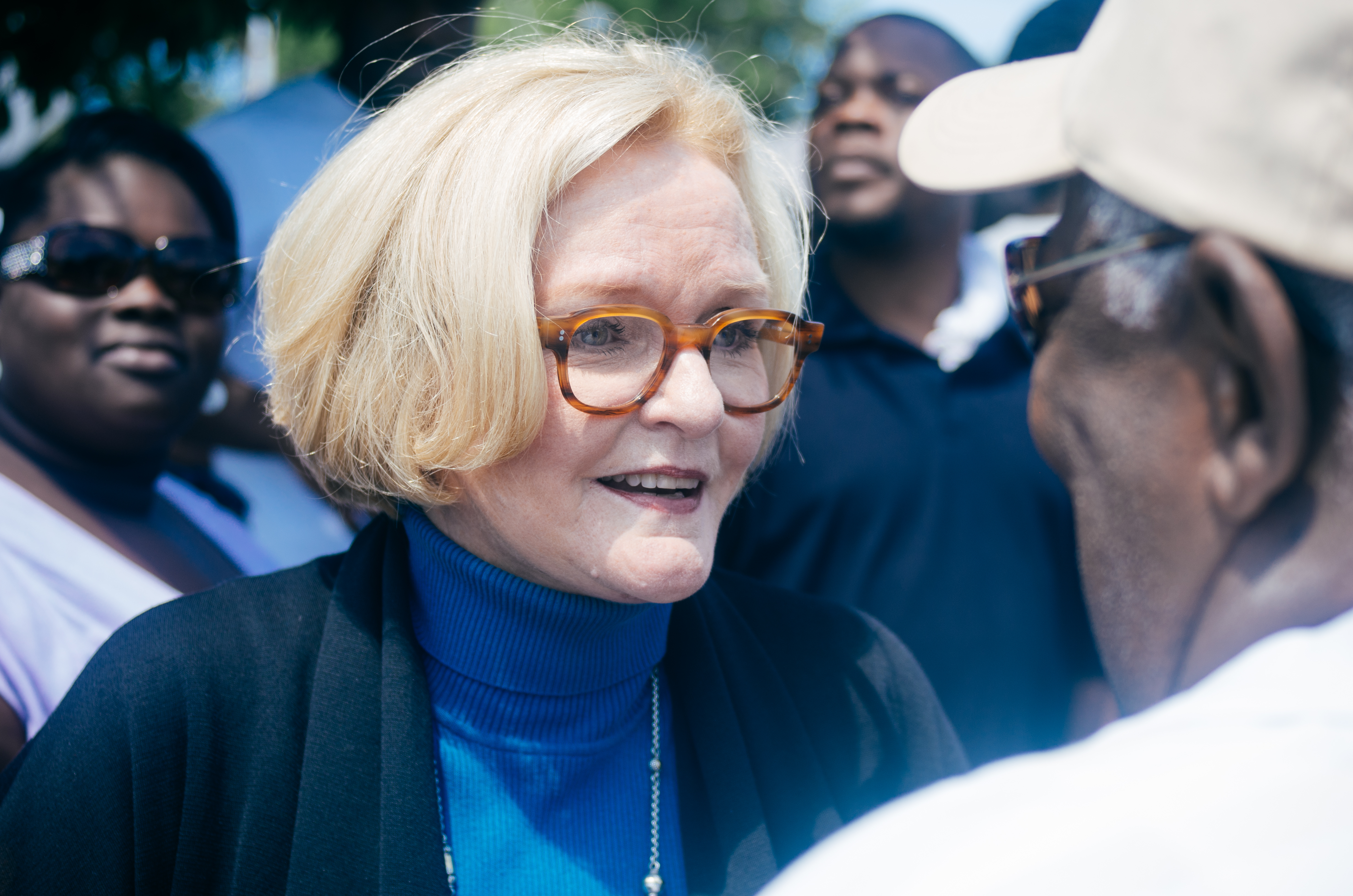 McCaskill speaking to members of the crowd at Ferguson protests